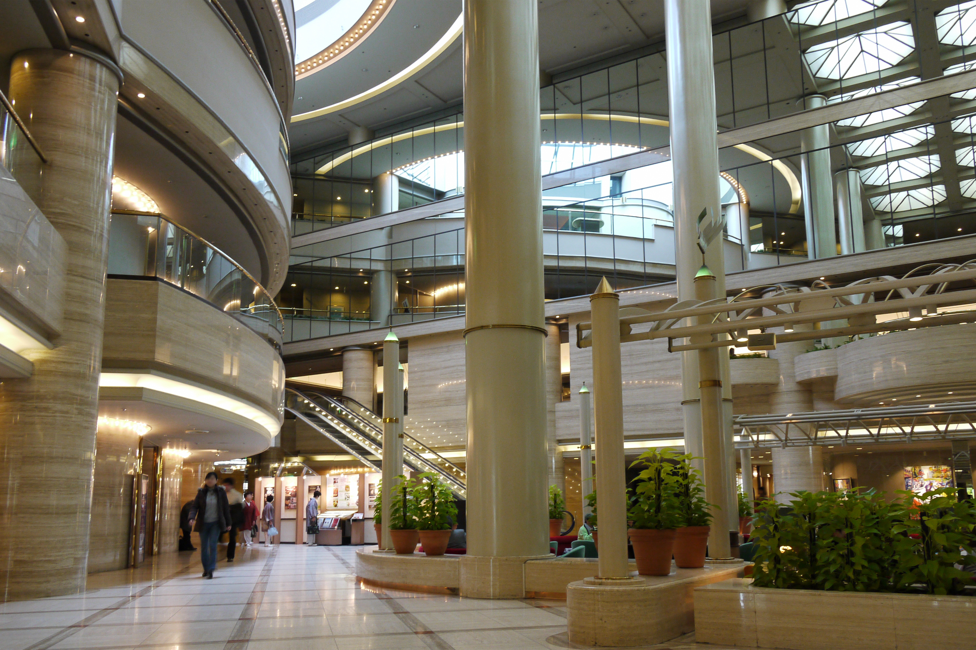 Hotel New Otani Osaka in Osaka, Osaka prefecture, Japan